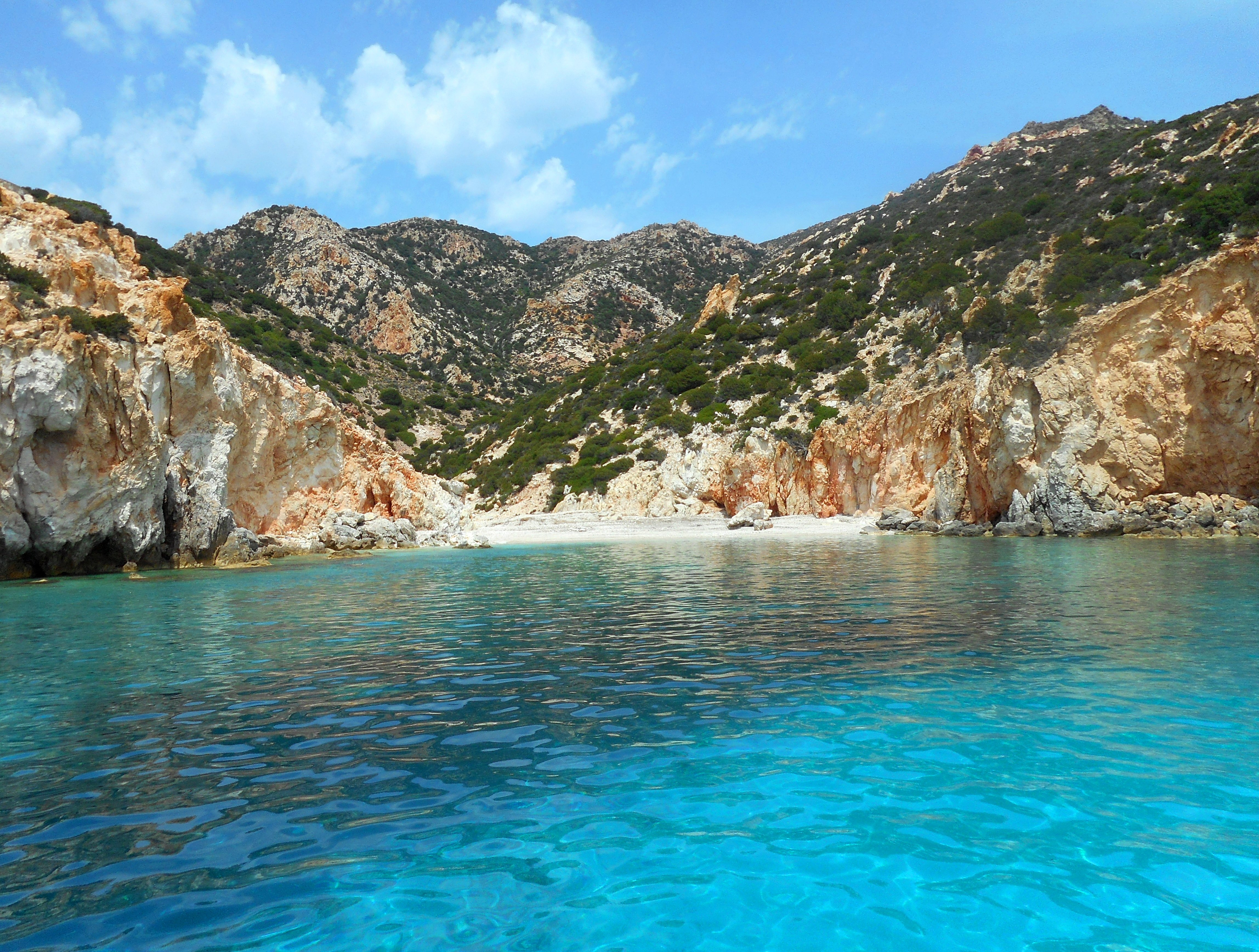 This is a photography of Natura 2000 protected area with ID GR4220006